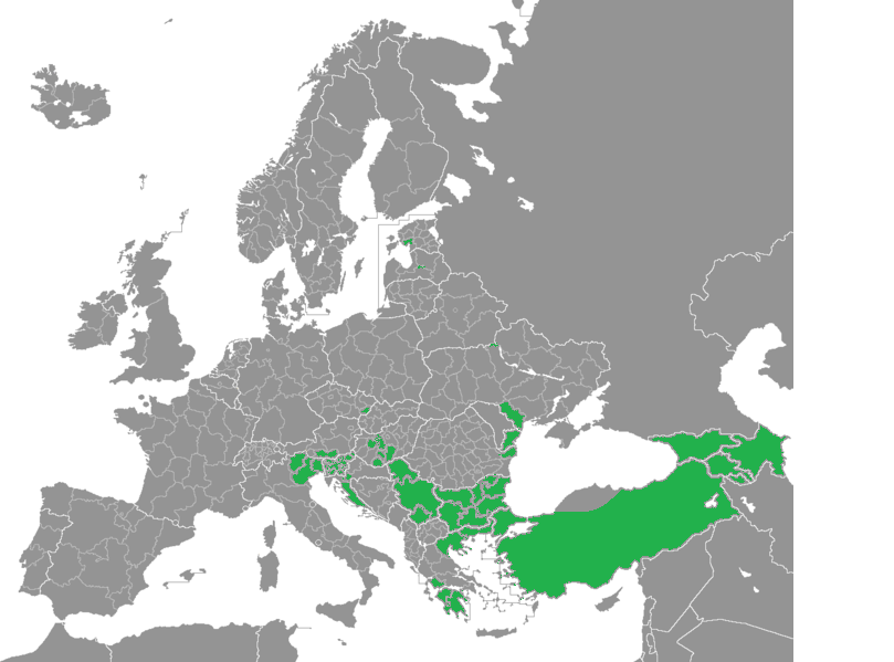 Present distribution of Canis aureus moreoticus, based on information from GOlden JAckal informal study Group in Europe, Wikipedia article on European jackal, and map from IUCN.